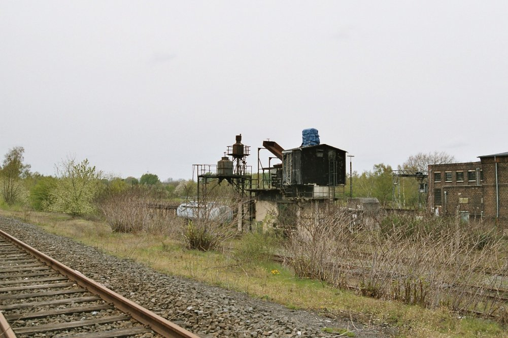 Sand facility on the sand bunker at the locomotive depot (Bahnbetriebswerk) of Gelsenkirchen-Bismarck in Germany.